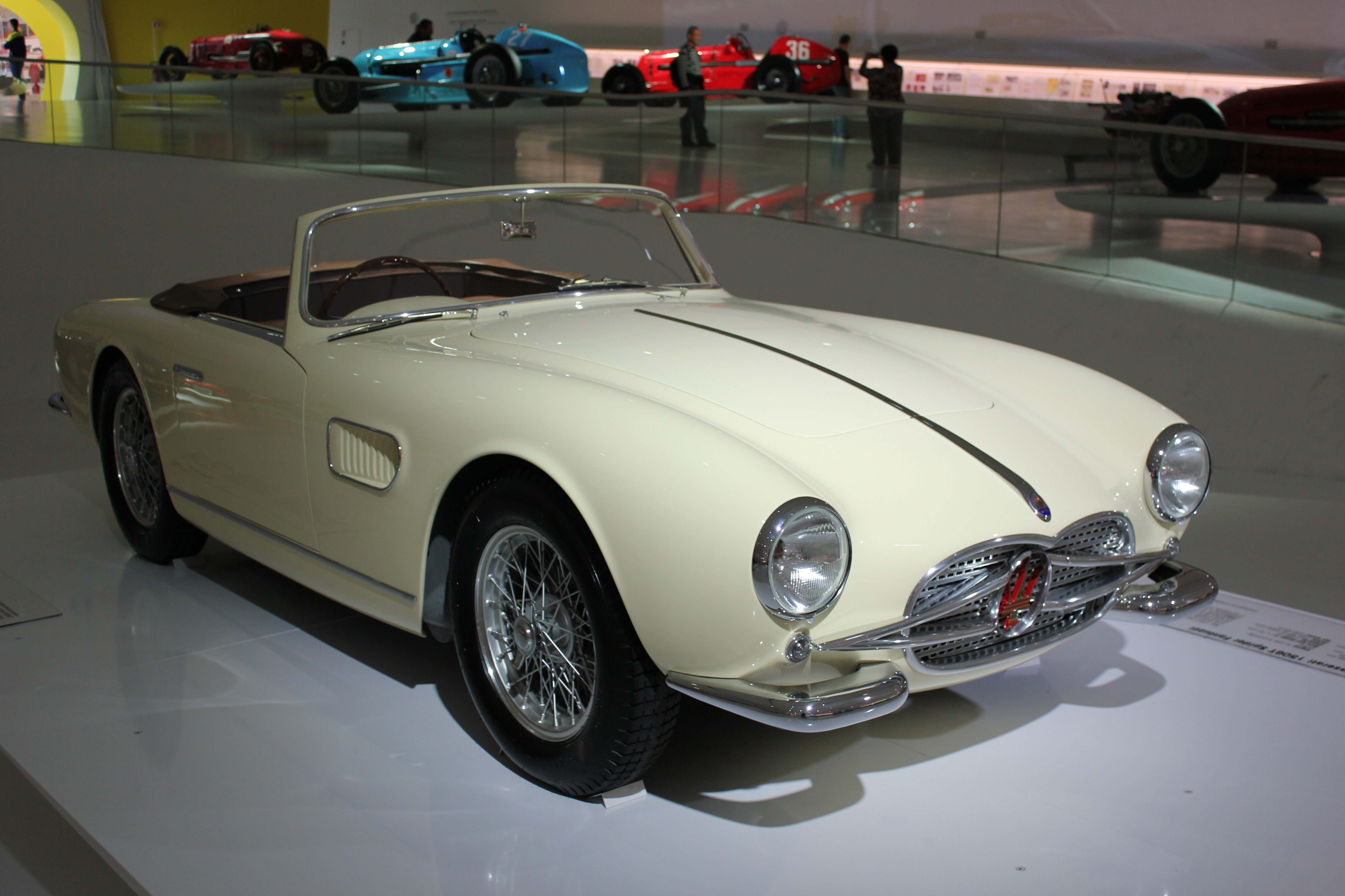 Maserati 150 GT Spyder Fantuzzi. "Maserati 100 - A Century of Pure Italian Luxury Sports Cars" exhibition at the Museo Enzo Ferrari, Modena, Italy.